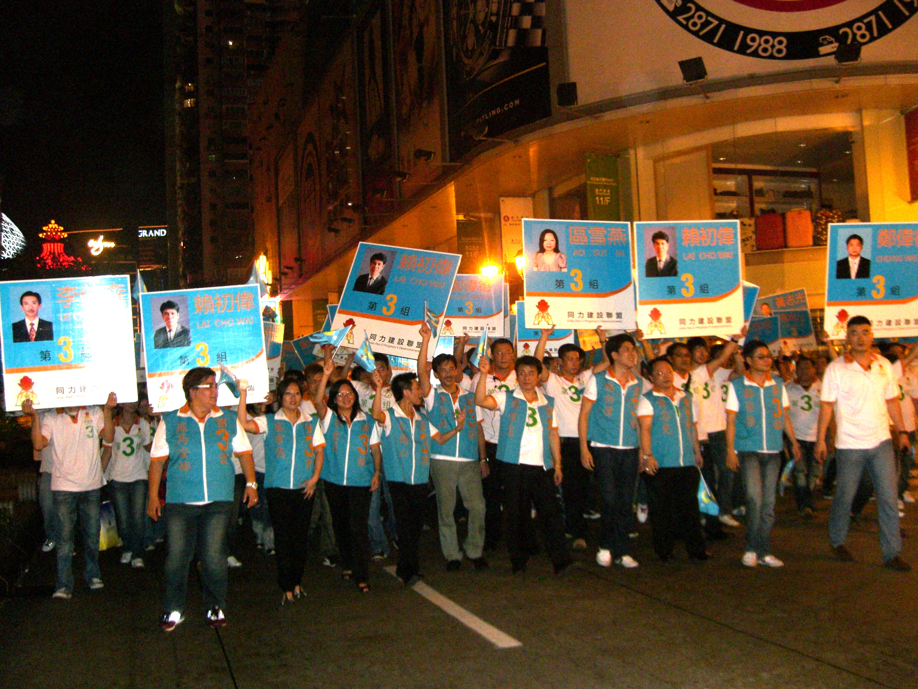 The group of "União Para o Progresso e Desenvolvimento" at "Avenida do Infante D. Henrique" in the start of promotion period of Macanese Legislative Election 2009